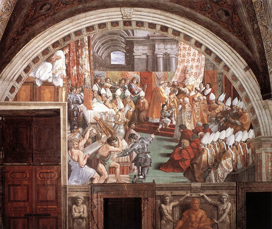 Charlemagne was crowned by Leo III in AD 800 in the Vatican Basilica